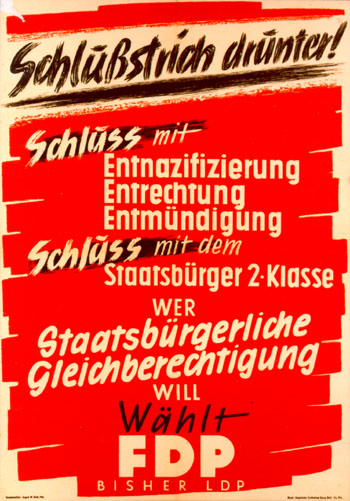 "Schlußstrich drunter!" – FDP campaign poster before the 1949 Bundestag elections in Hesse calling for a halt on De-nazification